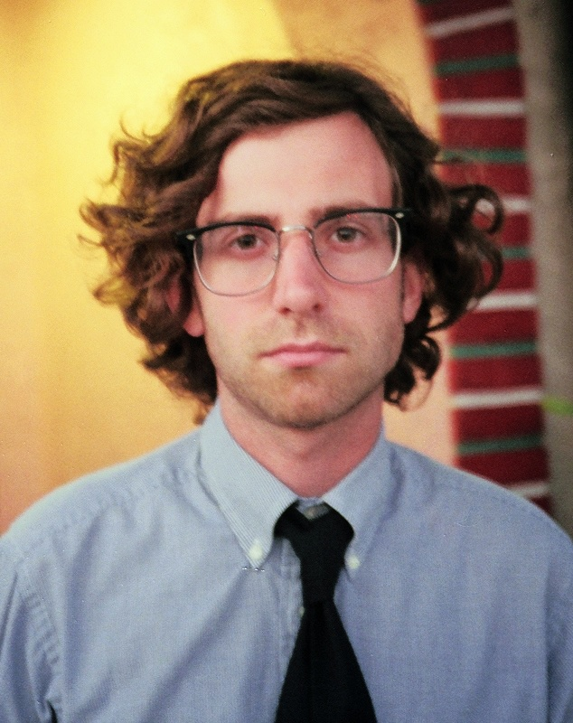 American comedian and actor Kyle Mooney.